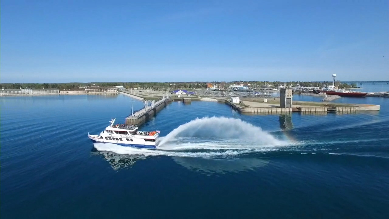 Photo of Star Line Mackinac Island Hydro-Jet Ferry Marquette II in front of Mackinaw City State Dock. Getting ready to dock at Star Line Mackinac Island Ferry's Mackinaw City Dock 1.